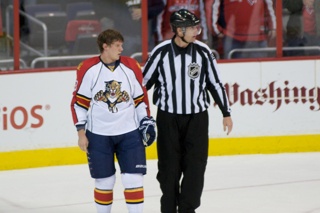 Dmitry Kulikov of the Florida Panthers being escorted by Shane Heyer during a game against the Washington Capitals.